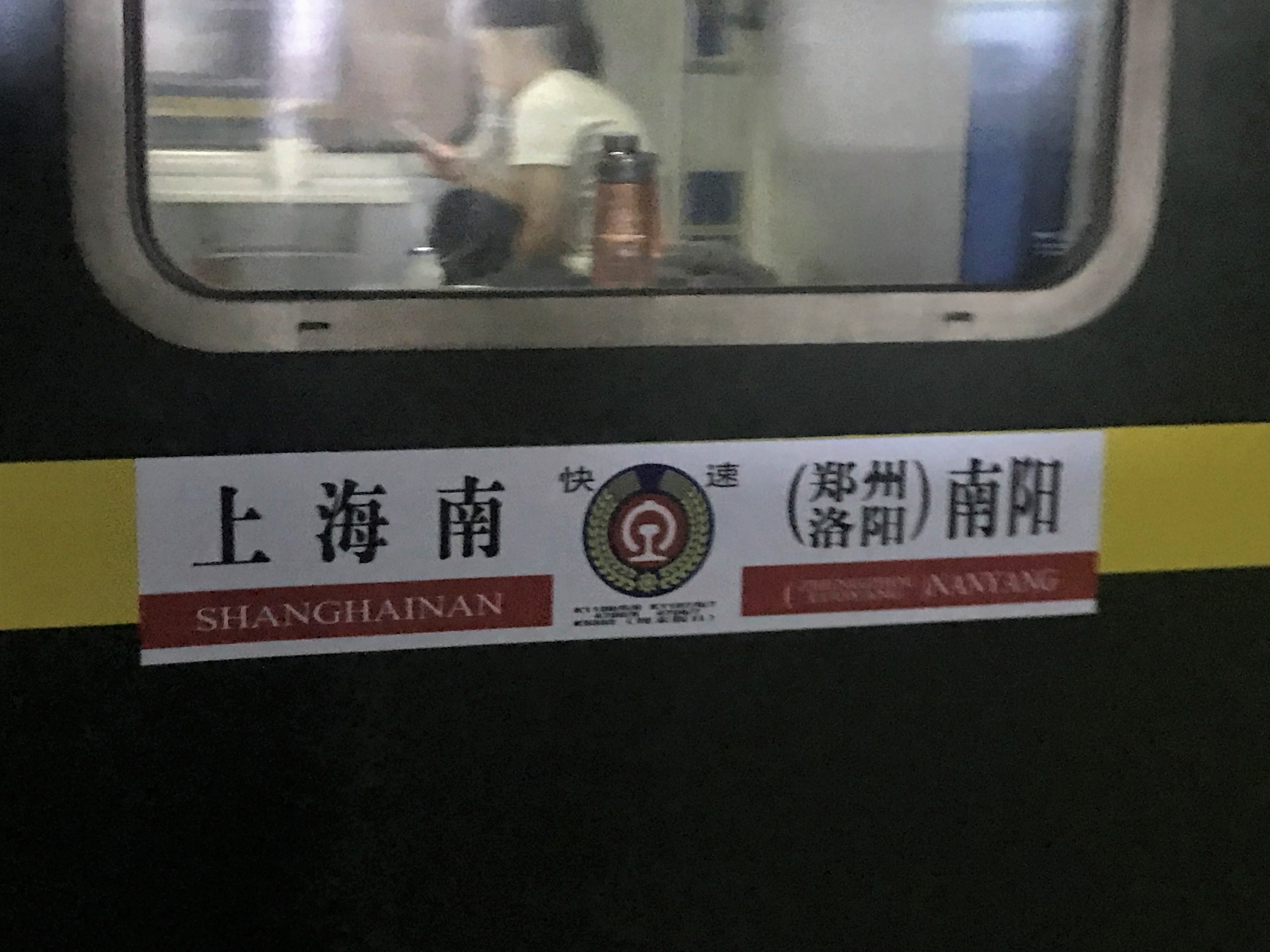 Taken at Hangzhou Station